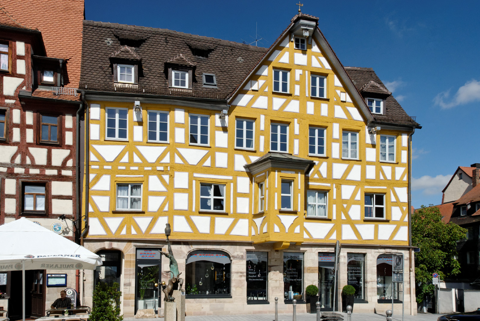 House Marktplatz 11 in Fürth, Germany